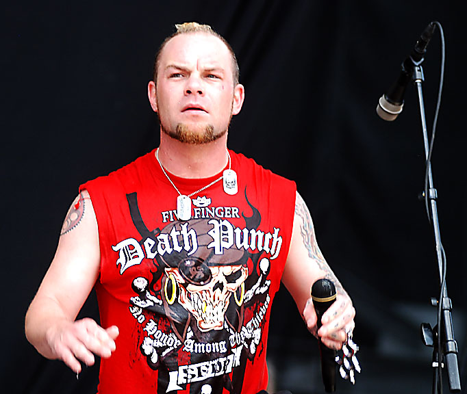 Ivan Moody of Five Finger Death Punch performs at Rock on the Range 2010 in Columbus, OH, USA on May 23, 2010. Photo by Adam Bielawski